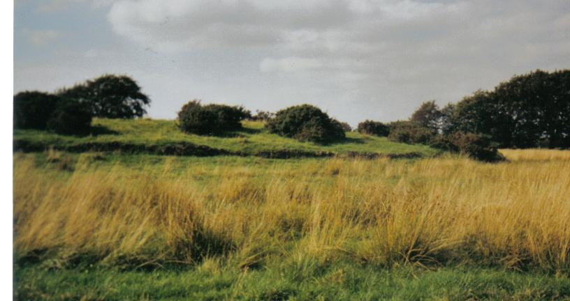 The enigmatic Mound Wood on Kennox Moss in Ayrshire. The oval mound is surrounded by a drystone wall, half a metre high. Gallowayford, the Glazert and the site of the cists are nearby.